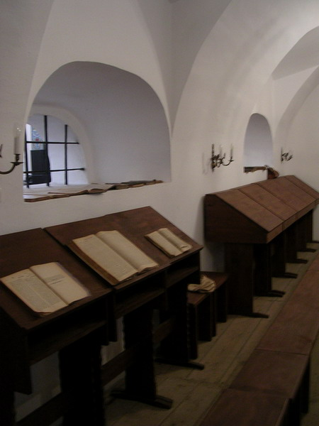 Great Synagogue in Włodawa, Poland. Women's gallery.